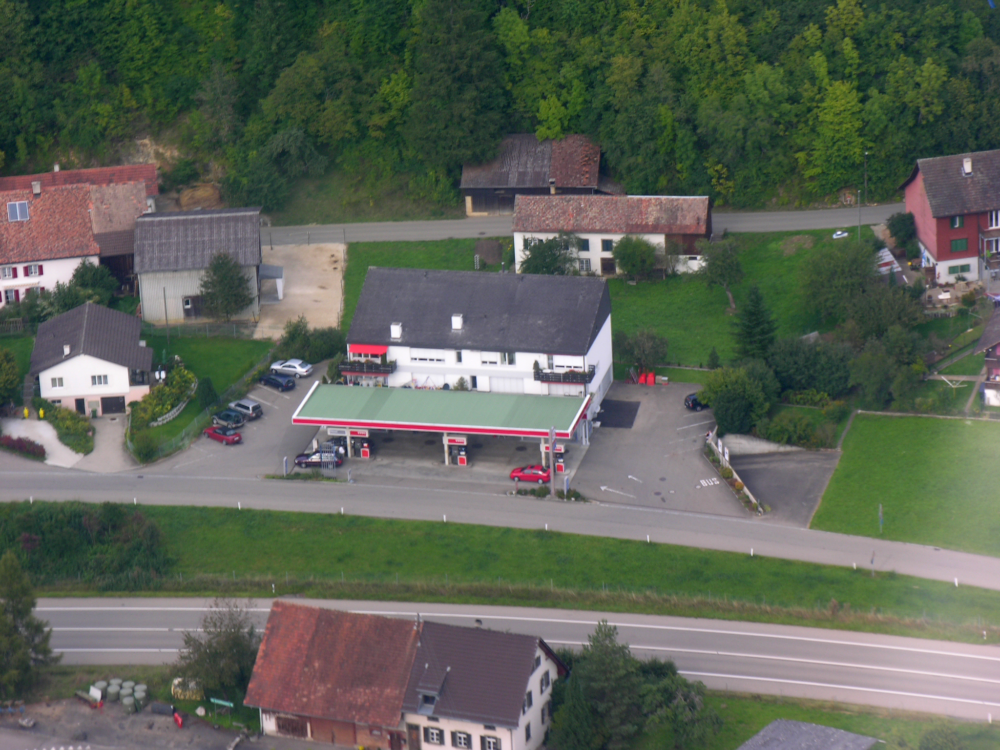 Switzerland, Canton of Schaffhausen, Aerial view of Bargen